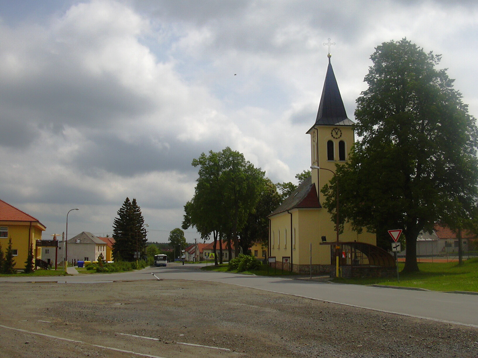 Village green with the church of Saint Giles in Studnice, Vyškov District, the Czech Republic.